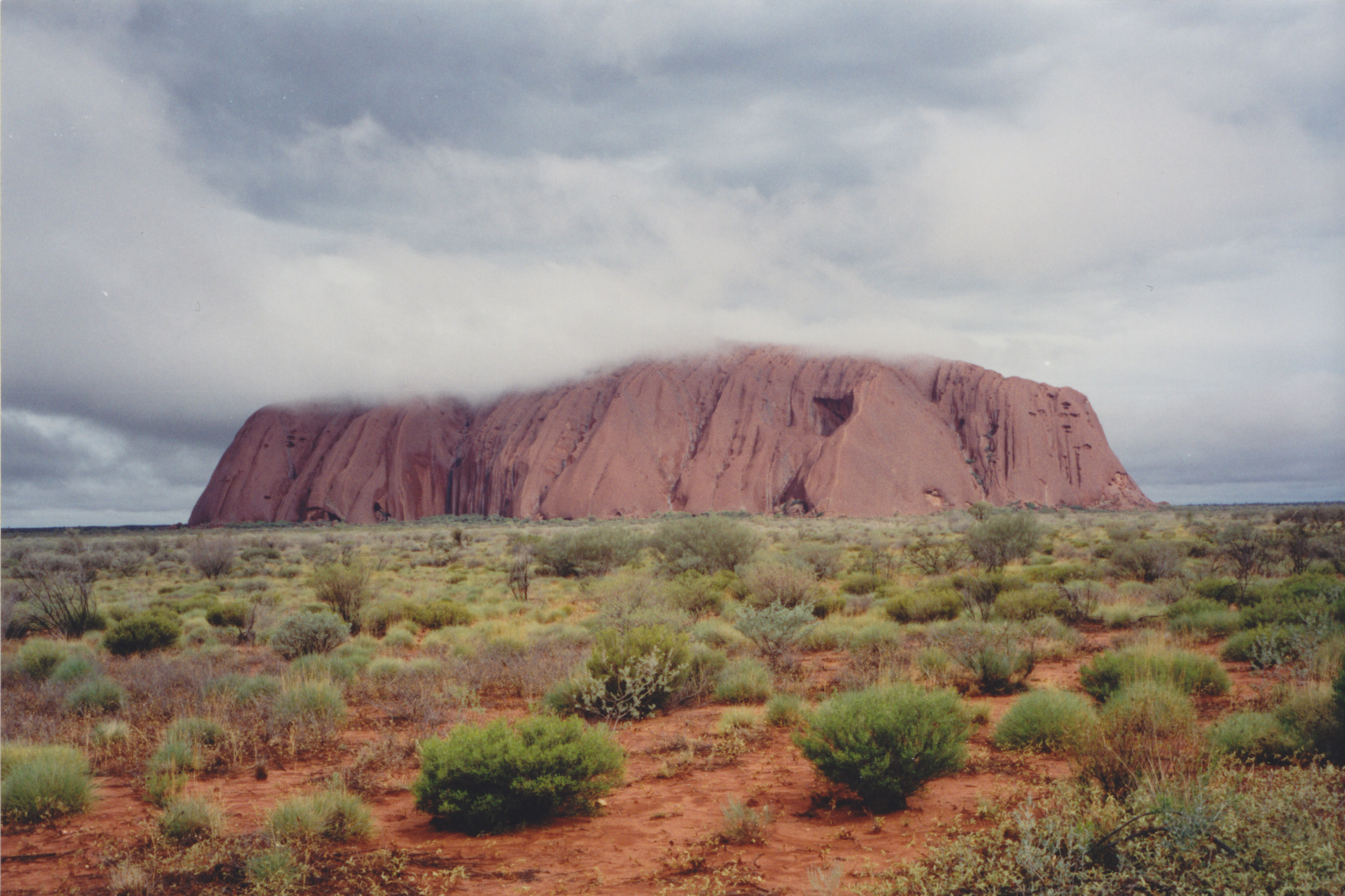 Uluru